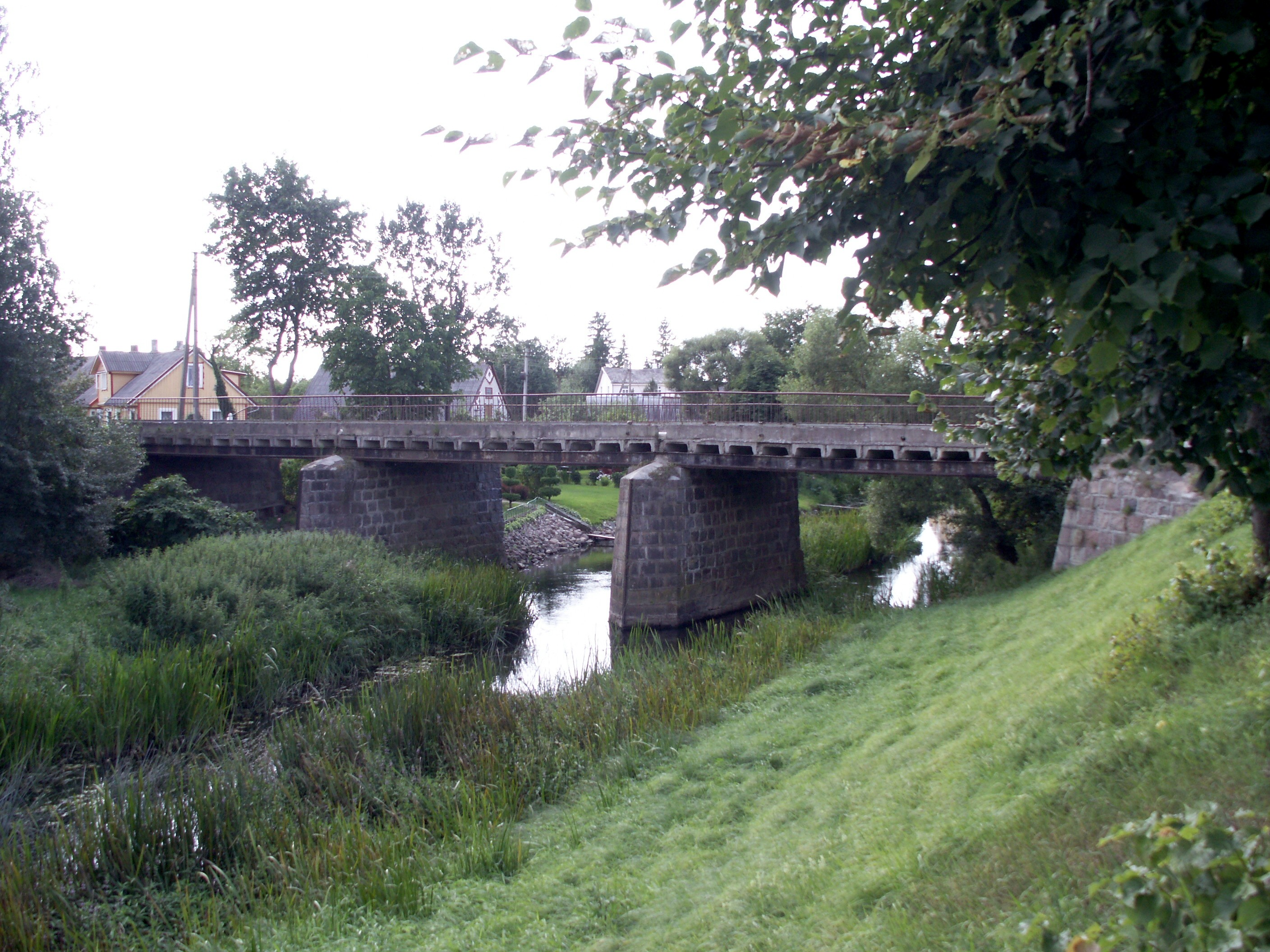 Sruoja bridge in Seda, Mažeikiai district, Lithuania